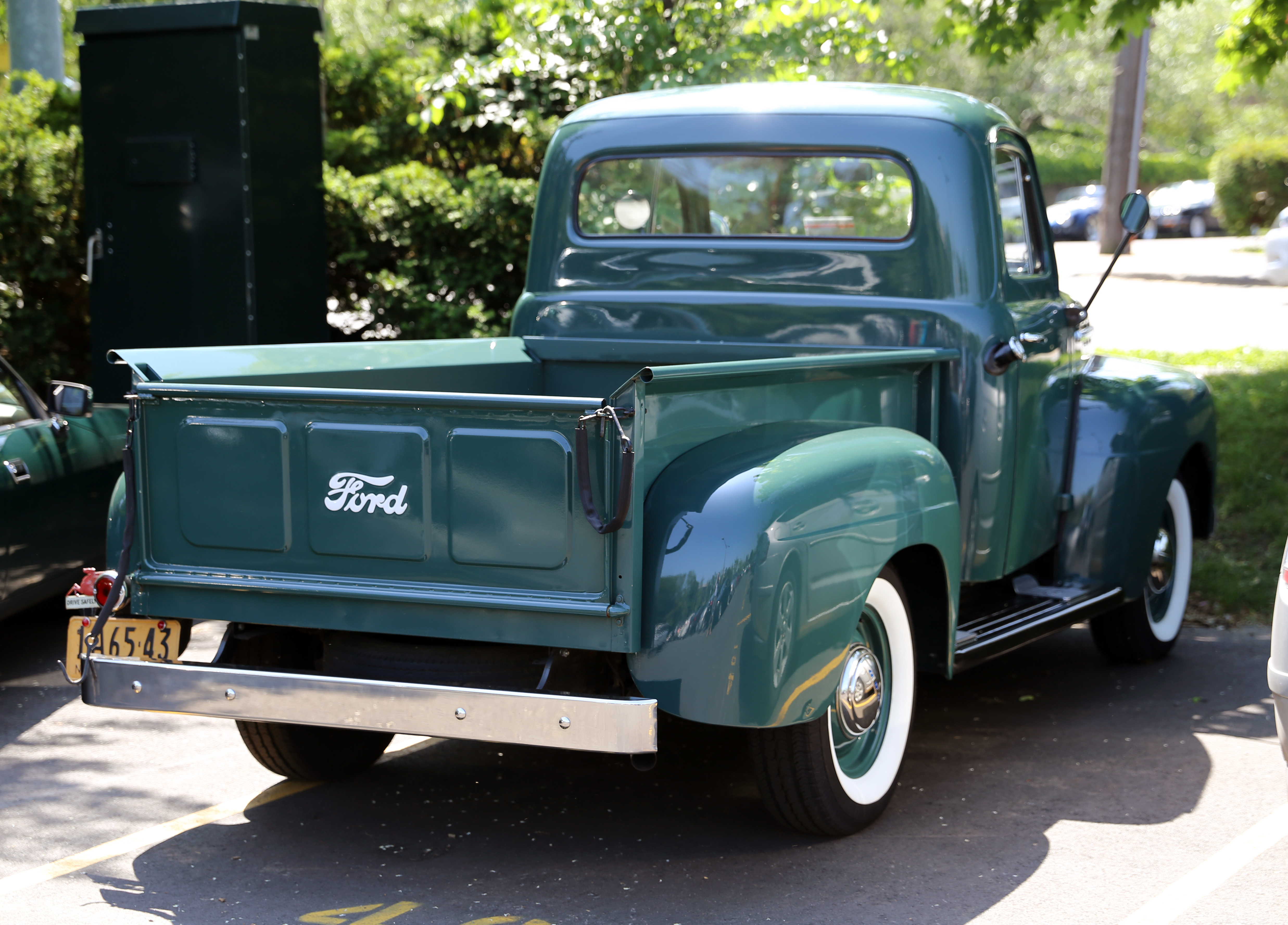 1951 Ford F1 (or F2?) seen in the parking lot of the 2013 Greenwich Concours d'Elegance.